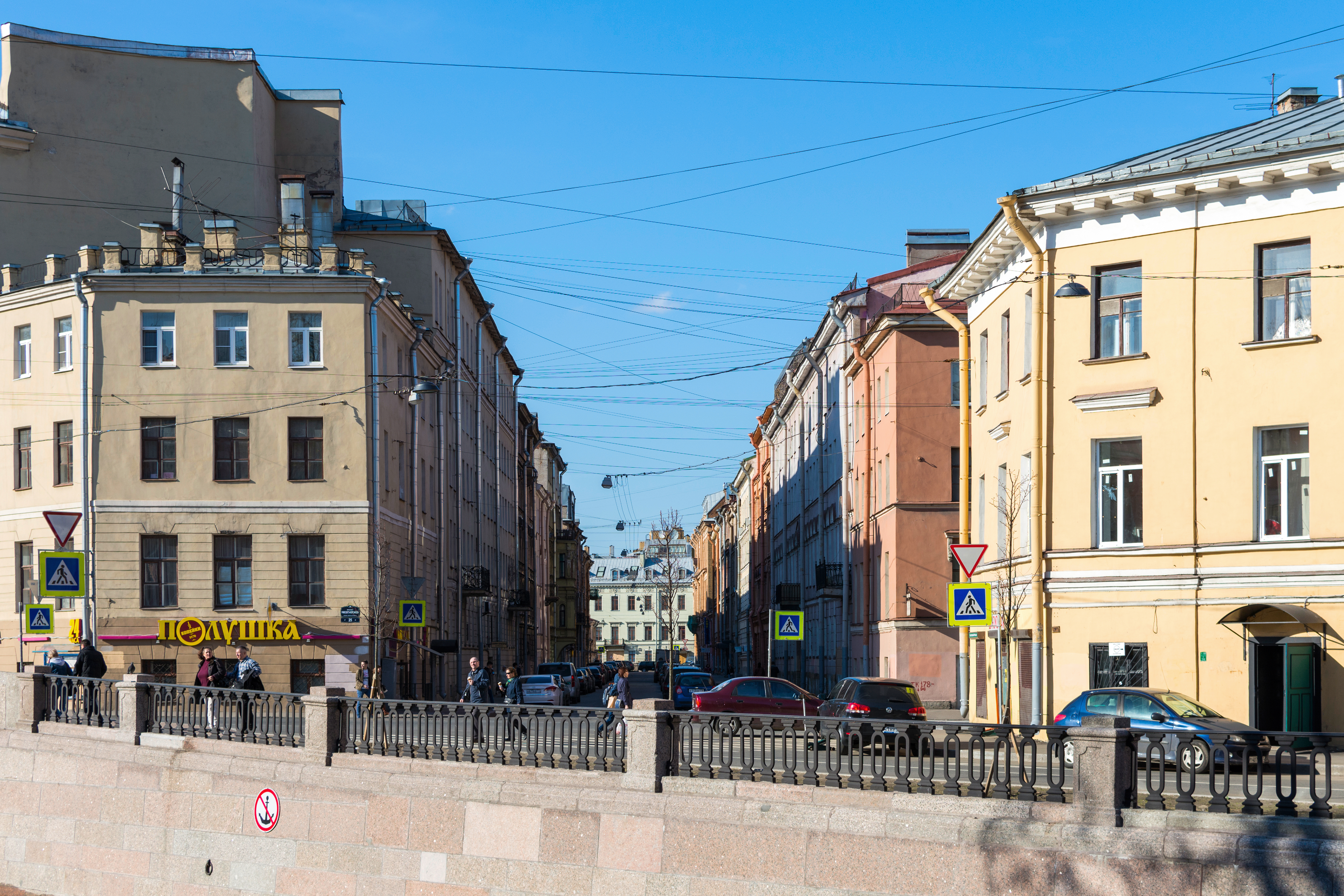 Srednyaya Podyacheskaya Street in Saint Petersburg